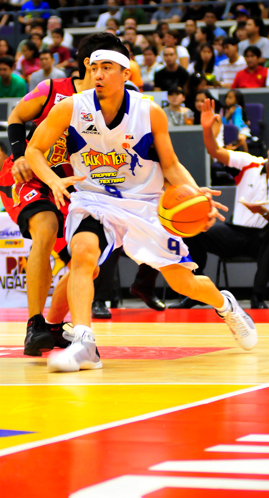 PBA SINGAPORE GAME 2008